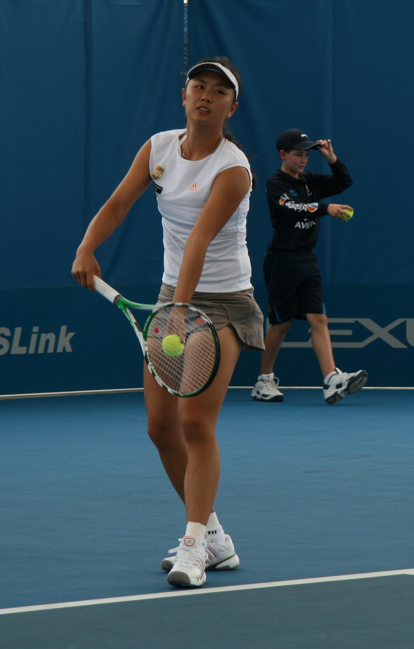 Peng Shuai at the 2009 Brisbane International